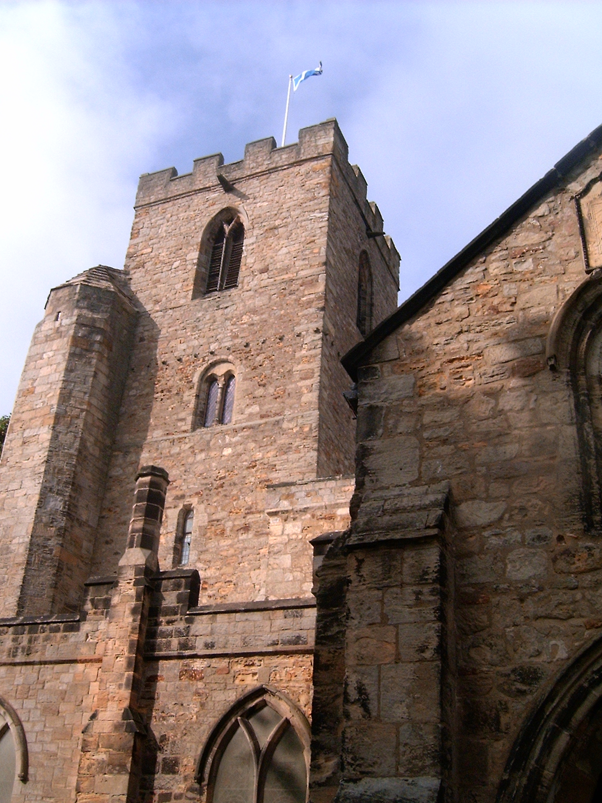 West tower of St Andrew's parish church, South Church, Bishop Auckland, County Durham, seen from the southeast